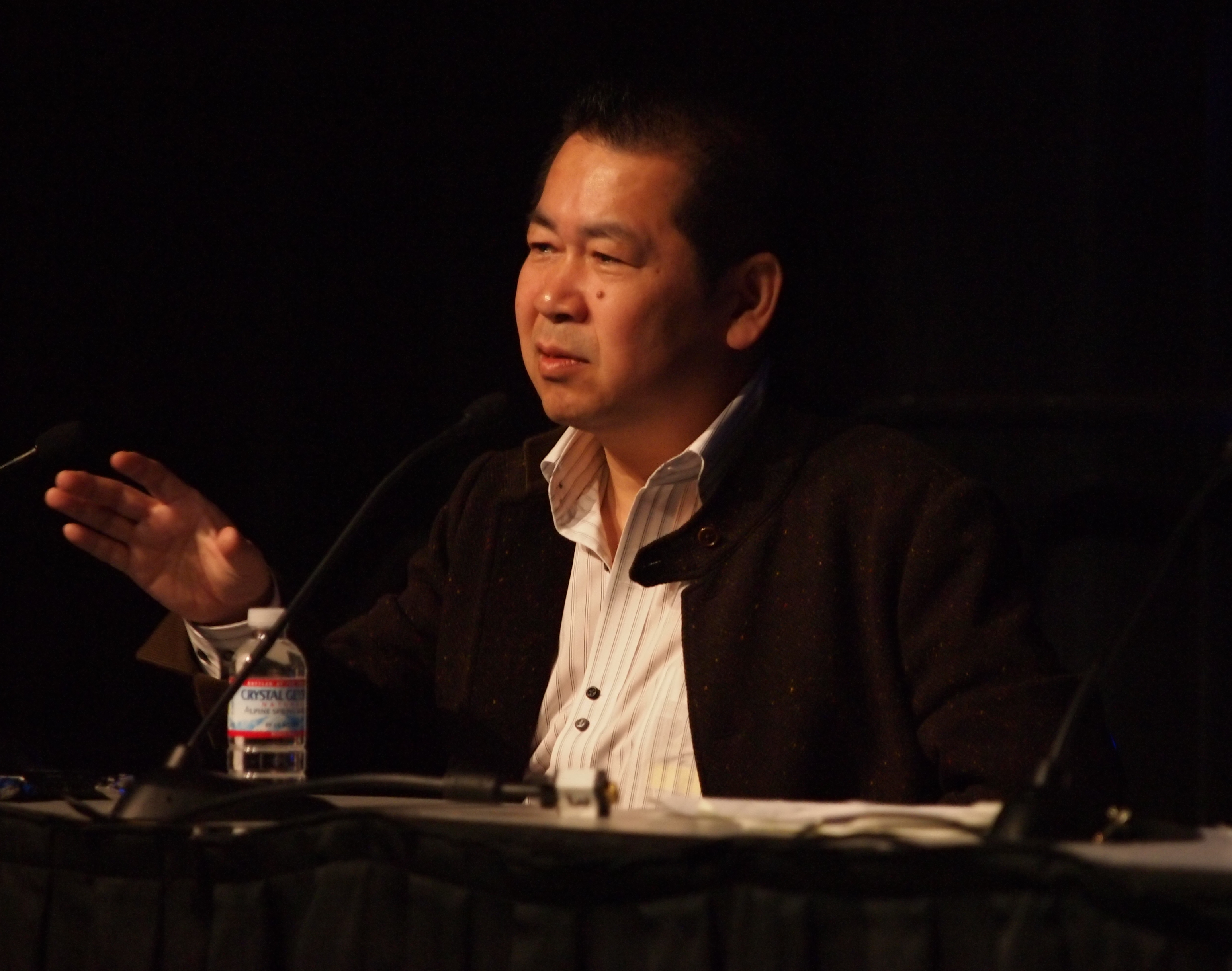 Yu Suzuki at the Game Developers Conference in 2011 (third day), at the session "Yu Suzuki's Gameworks: A Career Retrospective".